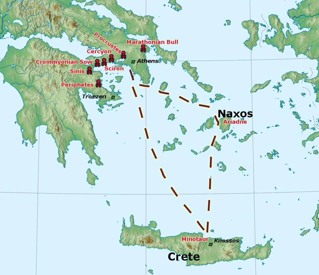 Map showing Theseus's labors on the route from Troezen to Athens and his journey to Crete and back via Naxos.